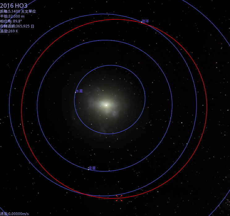 Screenshot of Earth's "quasi-satellite" 2016 HO3 orbit in the Solar System simulated. Data Source: JPL/NASA